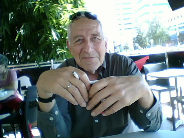 David Joroff, also known as Daniel Rogov